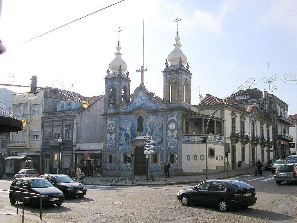 "Praça do Exército Libertador" square, in Porto, Portugal.